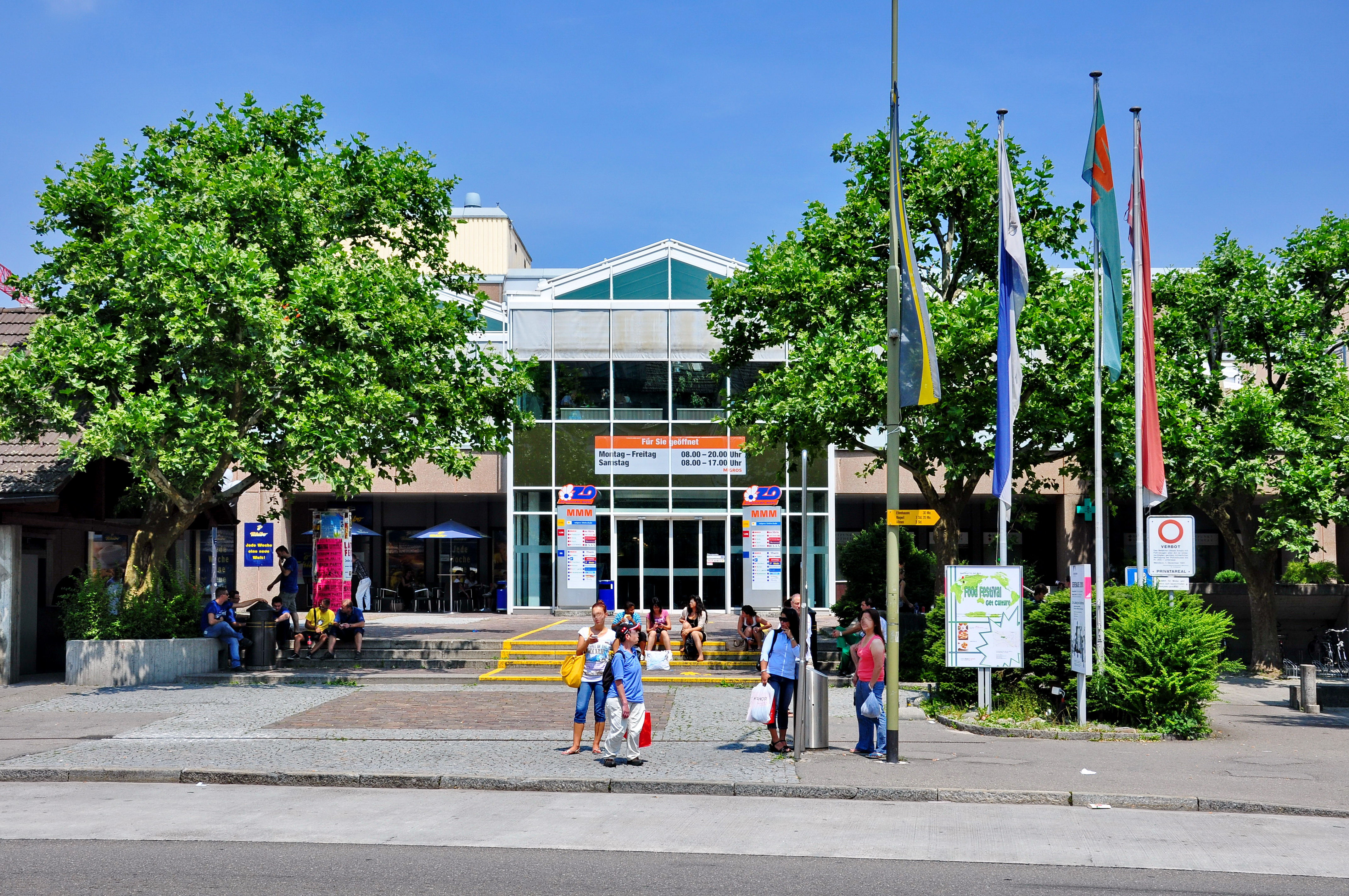 Bahnhofstrasse respectively Oberwetzikon in Wetzikon (Switzerland)